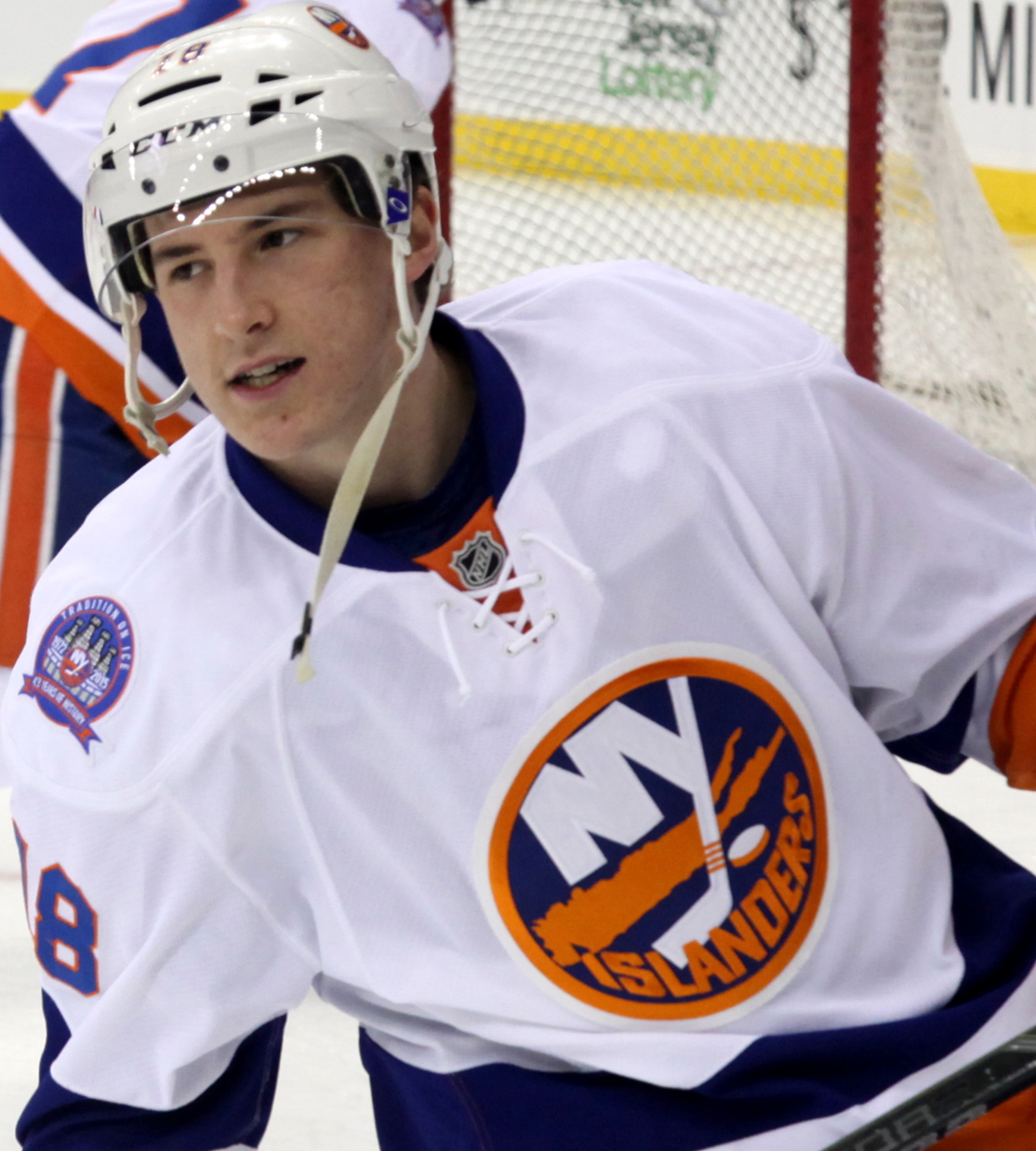 Ryan Strome in January 2015.